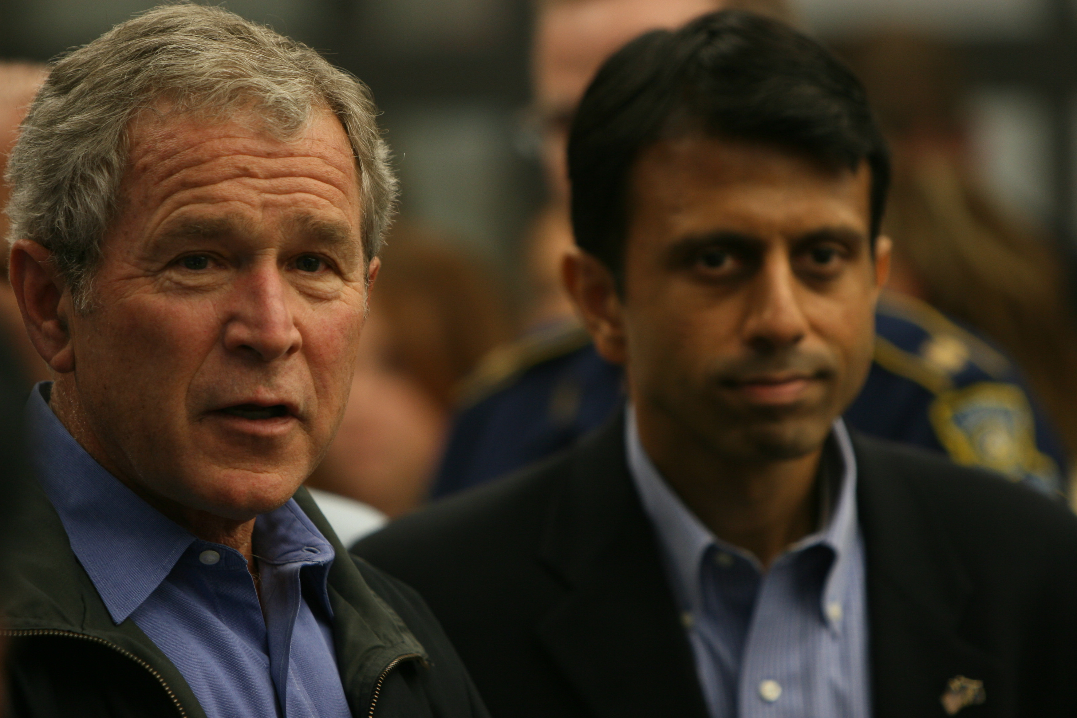 Rouge, LA, September 3, 2008 -- President George W. Bush and Governor Bobby Jindal greeting EOC employees, during disaster recovery efforts for Hurricane Gustav. Jacinta Quesada/FEMA